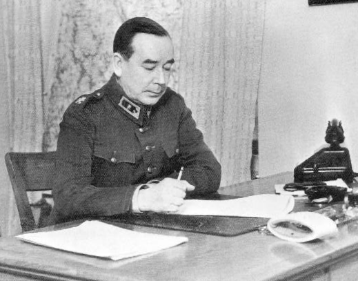 Major General Johan Woldemar Hägglund